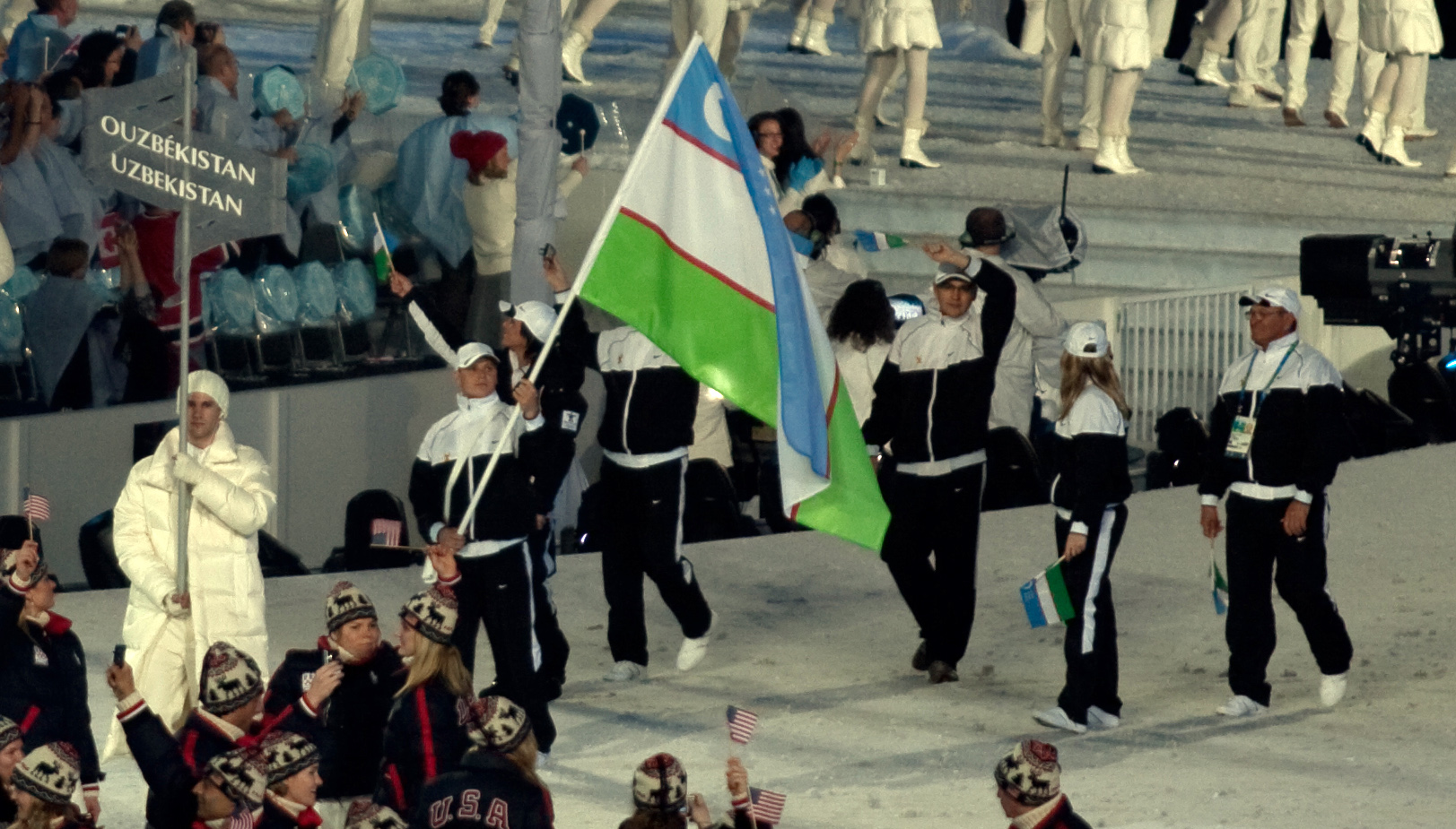 The athletes from Uzbekistan entering the stadium at the opening ceremonies of the 2010 Winter Olympics, with Oleg Shamaev carrying the national flag. Immediately in front of them can be seen the rear of the group from the United States.